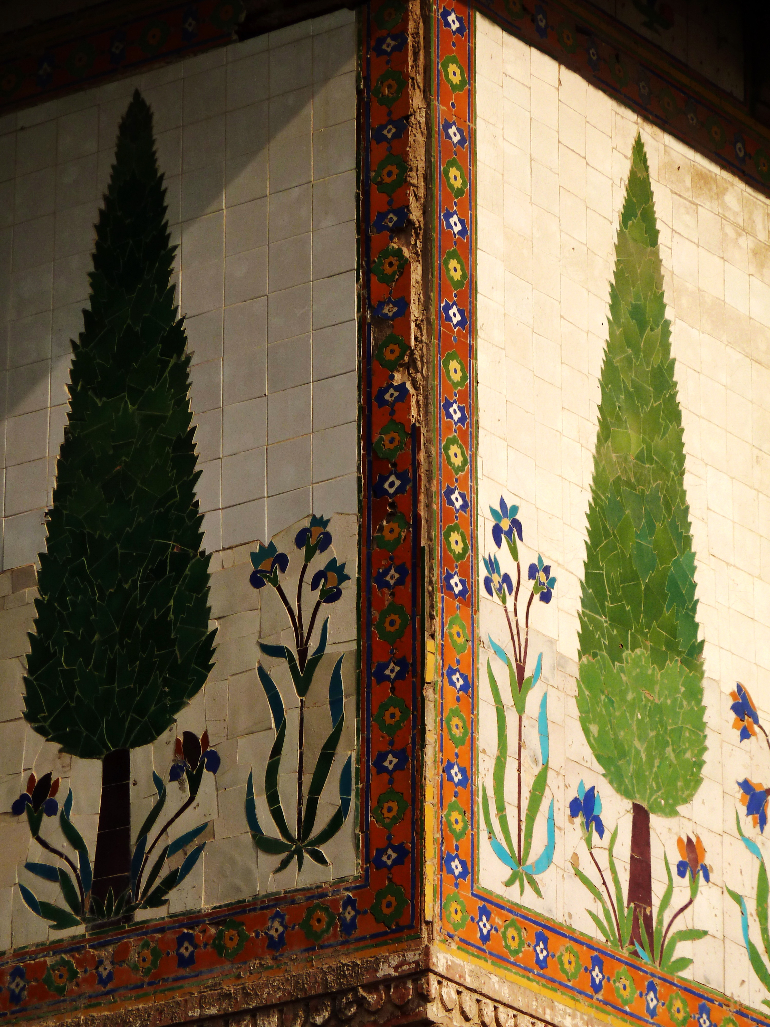 A detail of the cypress mosaics, Saruwala Maqbara (Cypress Tomb/Tomb of Sharf ul Nisa), Lahore This is a photo of a monument in Pakistan identified as the PB-83